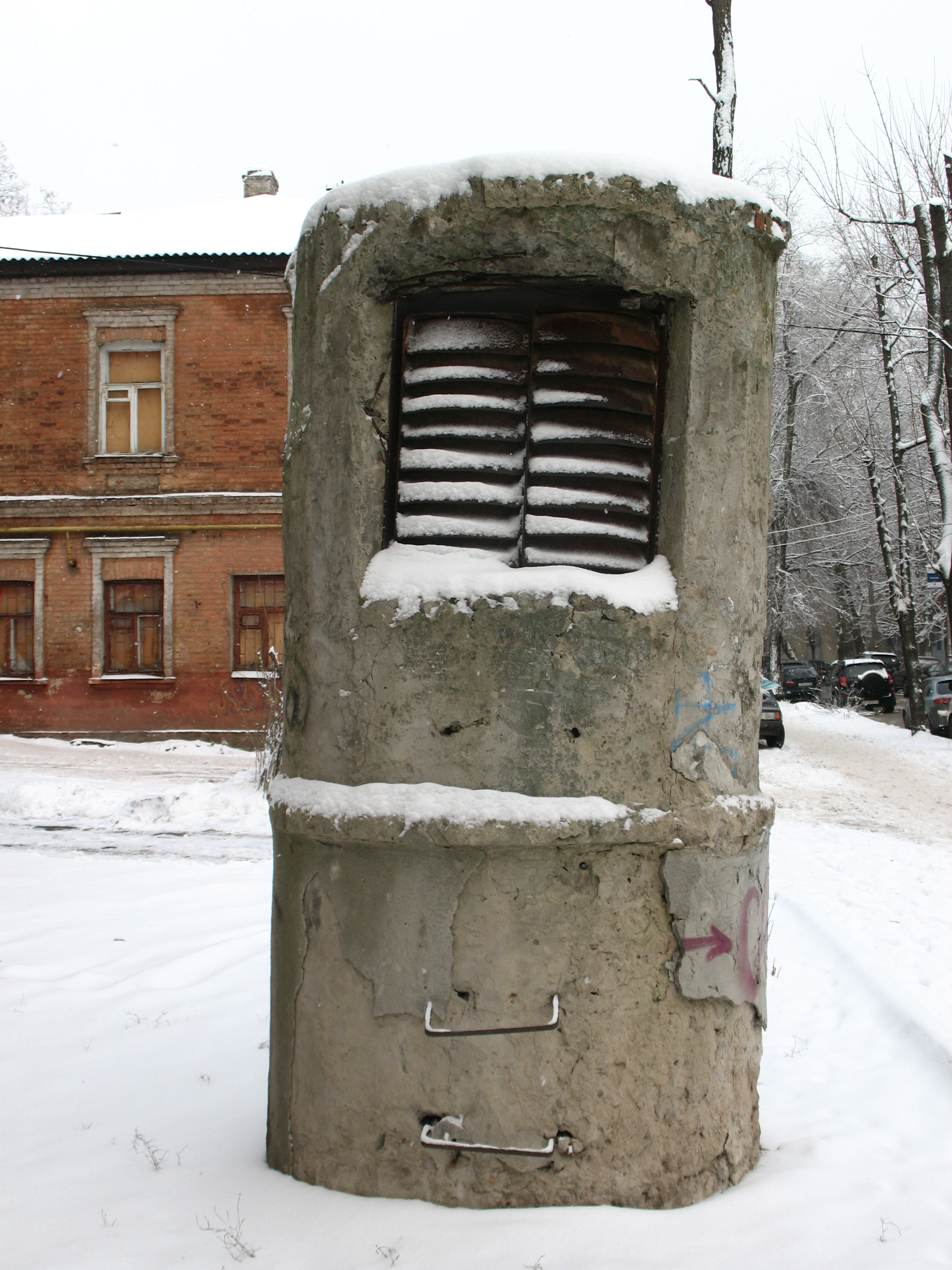 Kharkov City. Ventilation in Artema street.